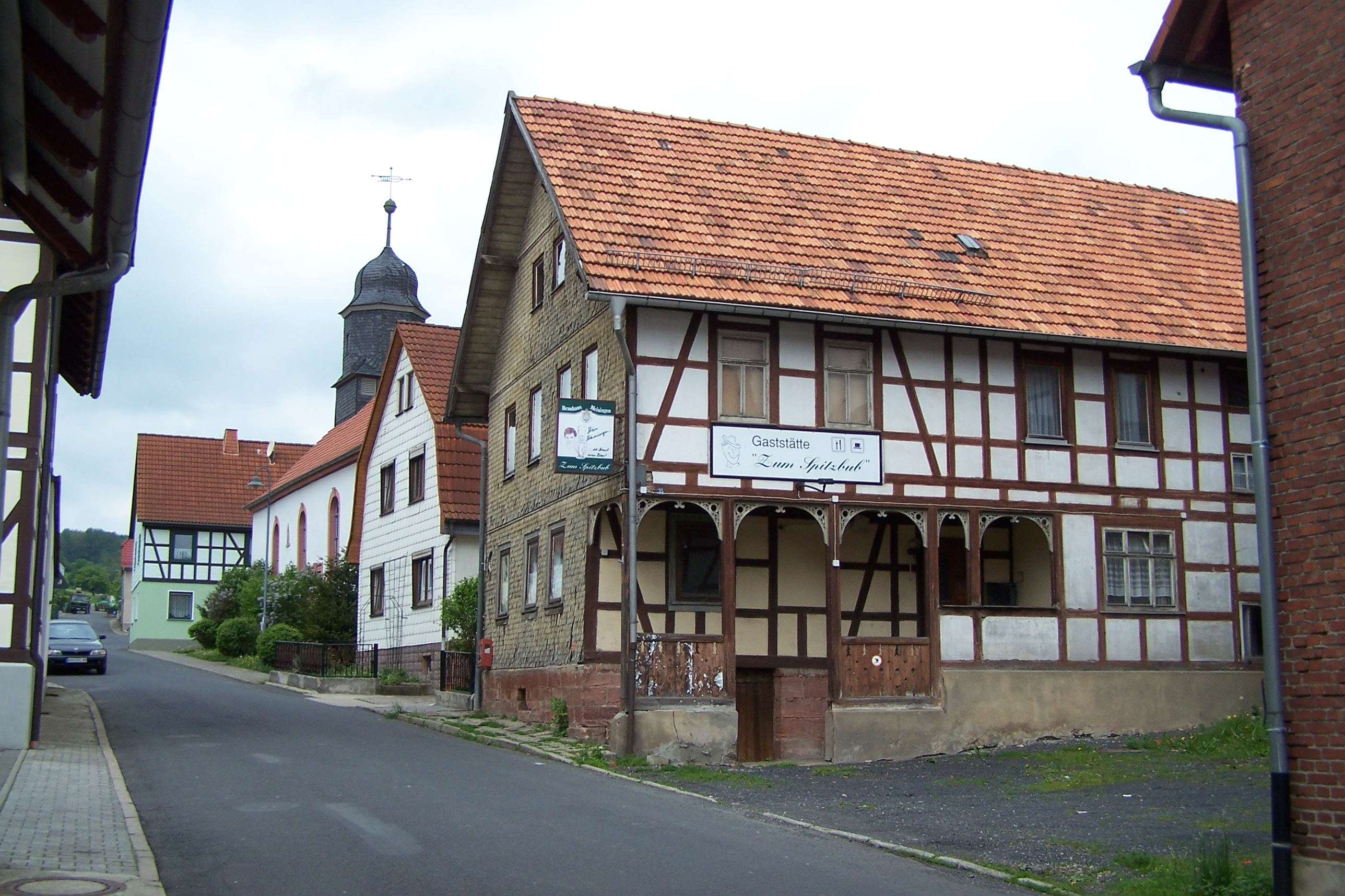 In Brunnhartshausen village.